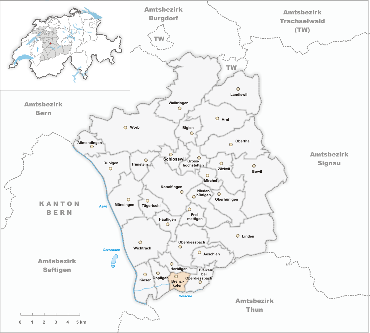 Municipality Brenzikofen